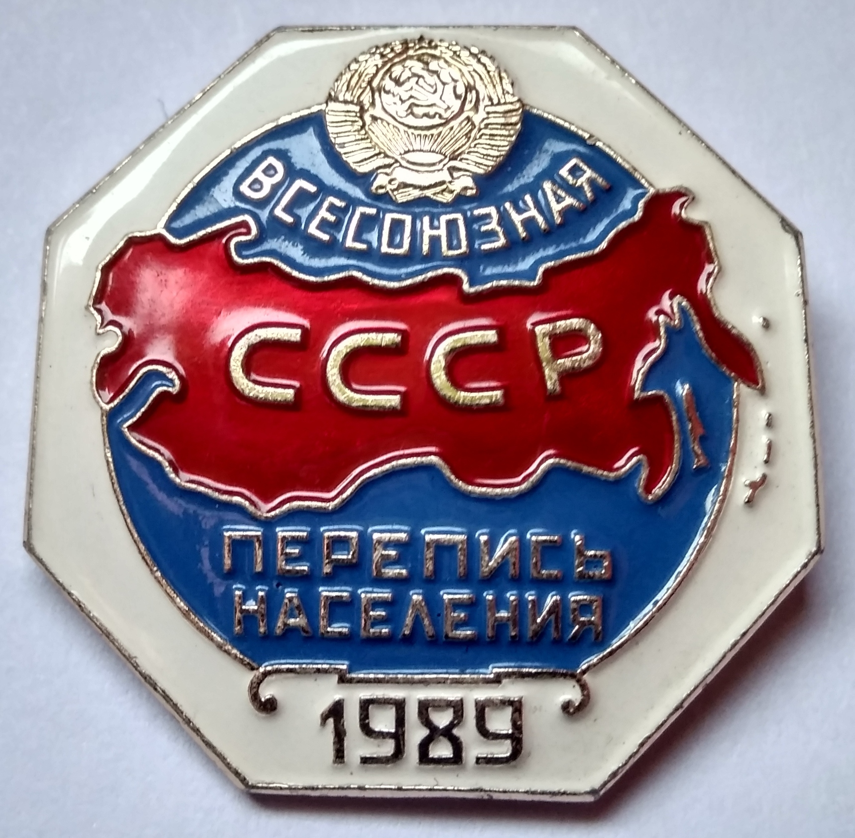 The official logo of the 1989 Soviet Census